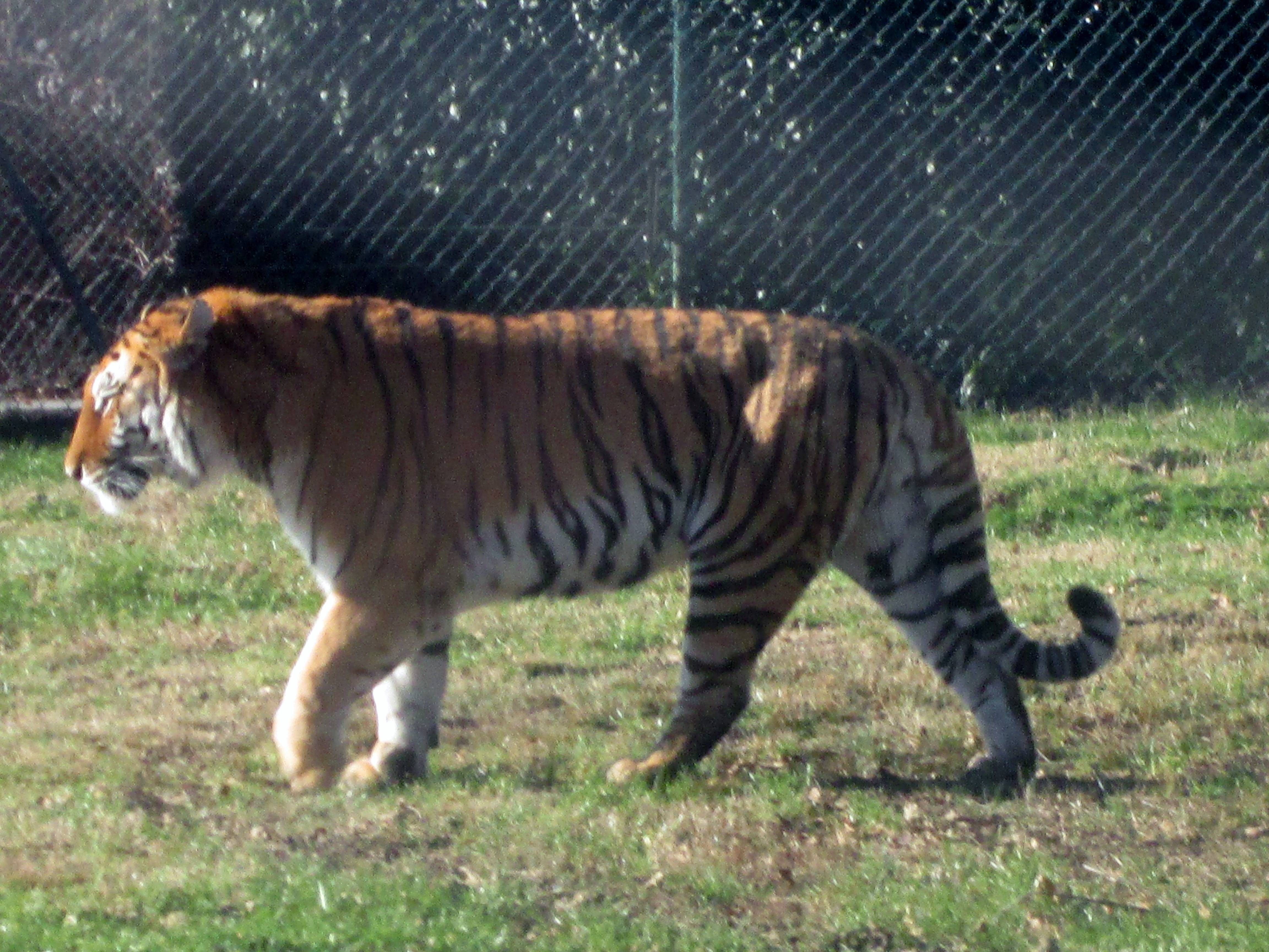 Siberian Tiger in Pombia ITALY